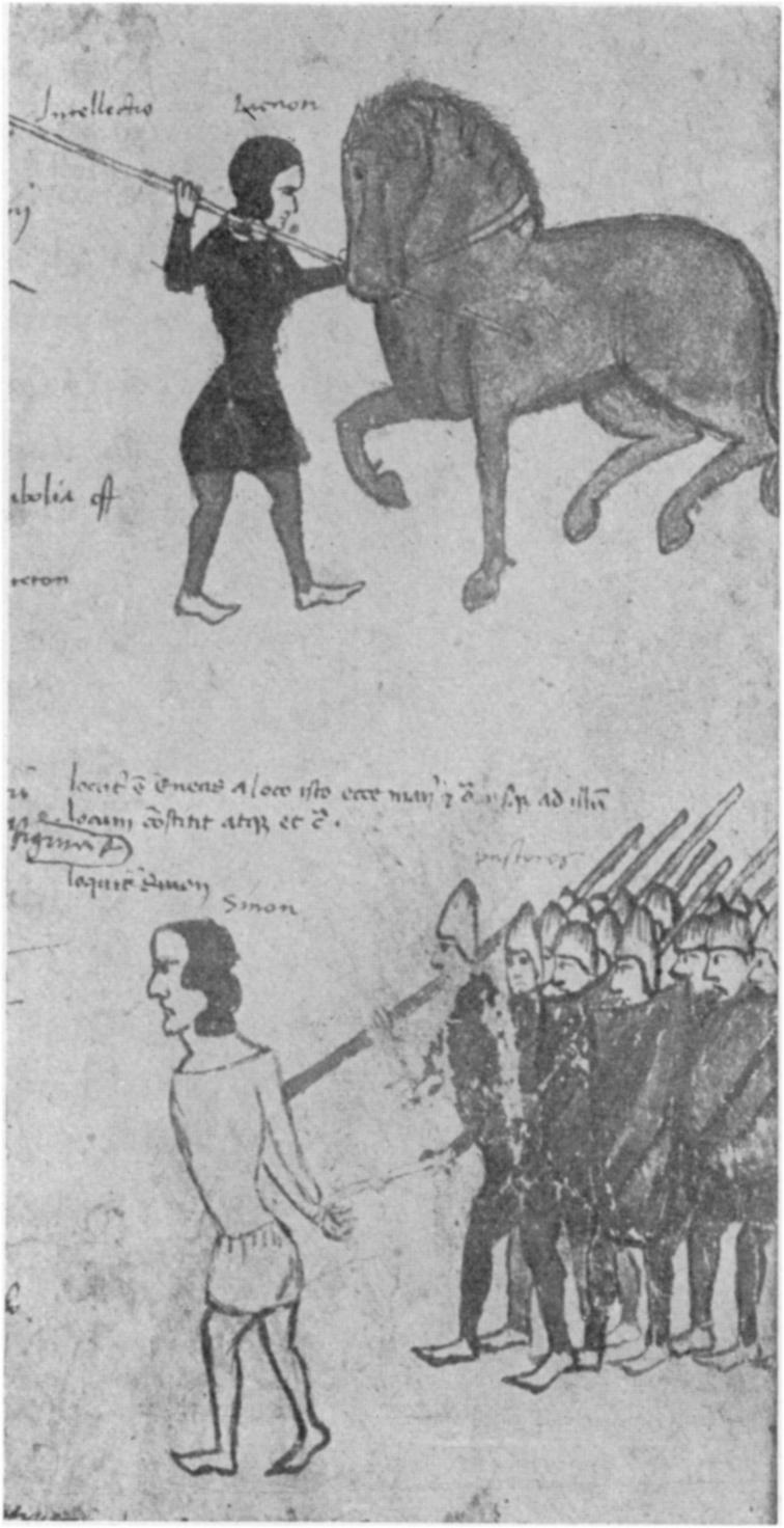 Miniature of the Codex Vaticanus lat. 2761 folium 13r.